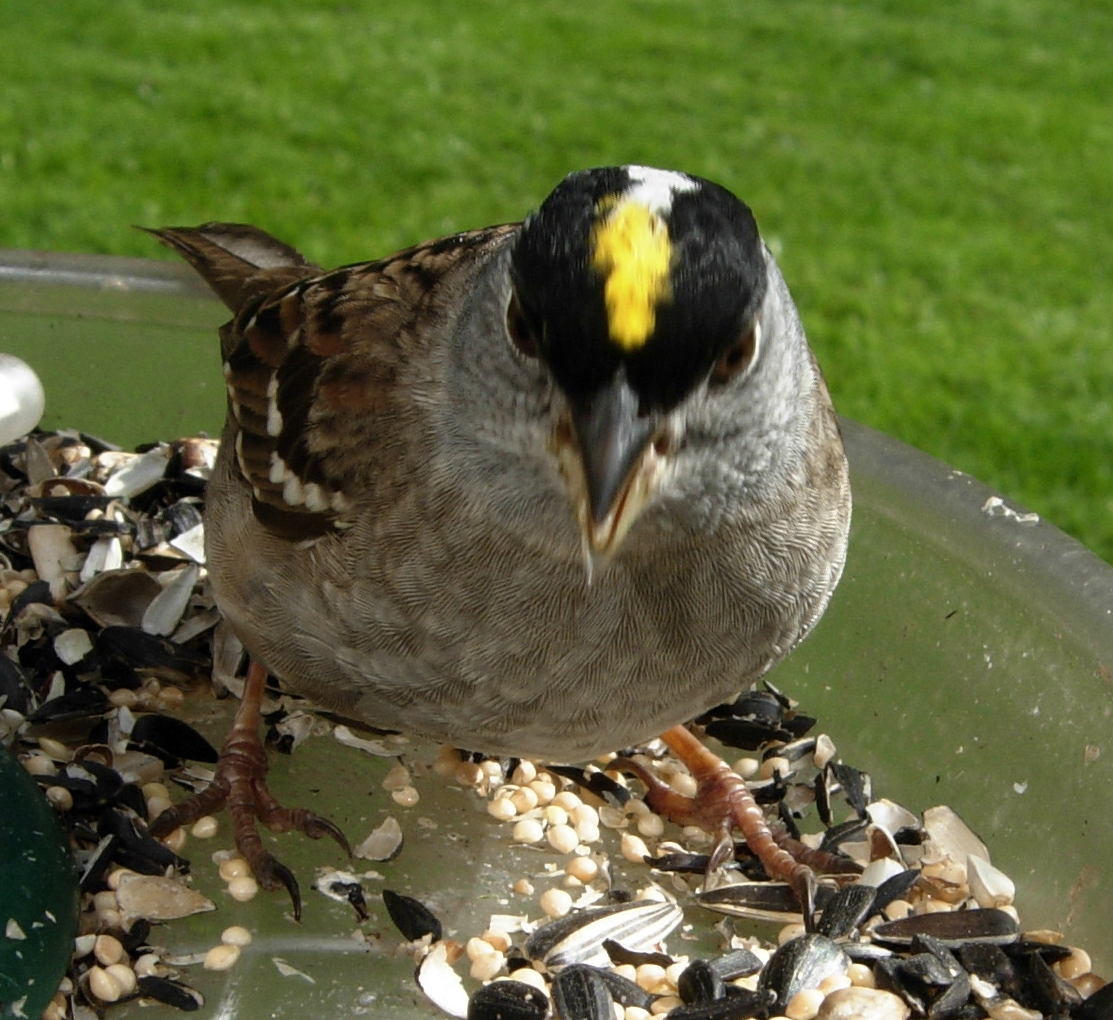 This sparrow is recognized by the distincitve bright yellow crown atop its head.